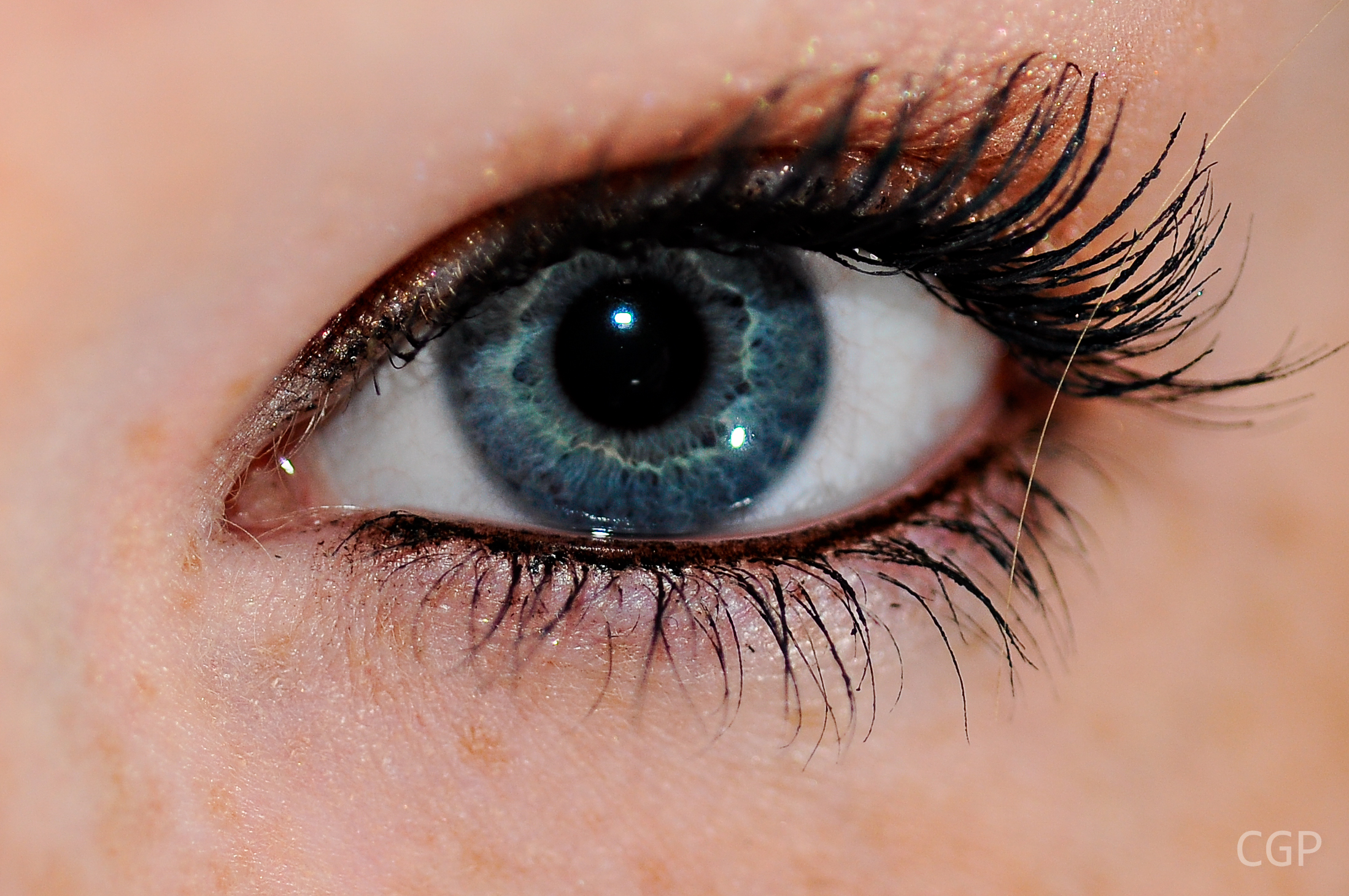 A human eye with mascara on the eyelashes